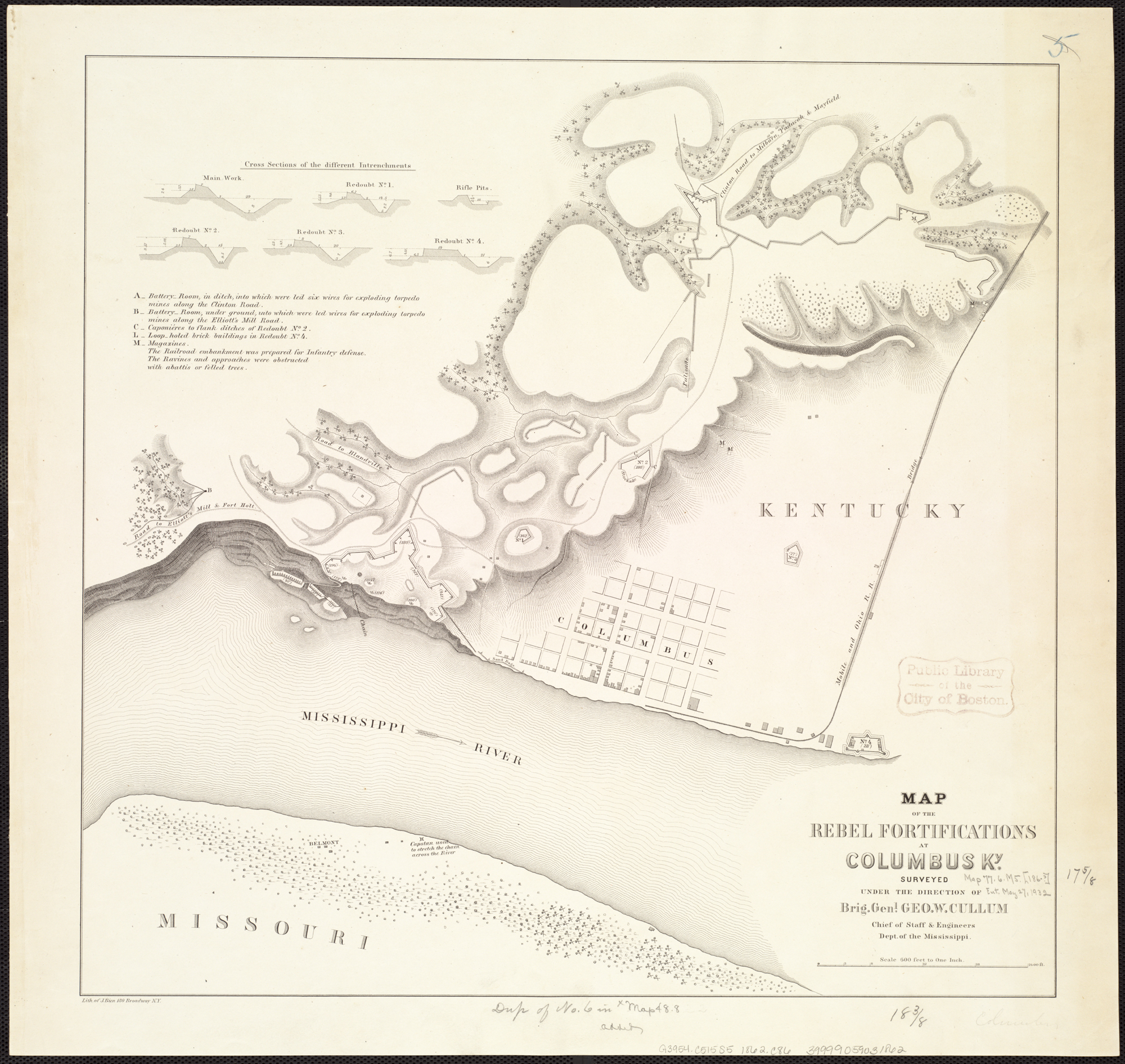 Zoom into this map at . Author: Cullum, George Washington Publisher: Bien, Julius Date: 1862 Location: Columbus (Ky.) Dimension: 45x47cm Scale: [ca.1:7,200] Call Number: G3954.C515S5 1862 .C86